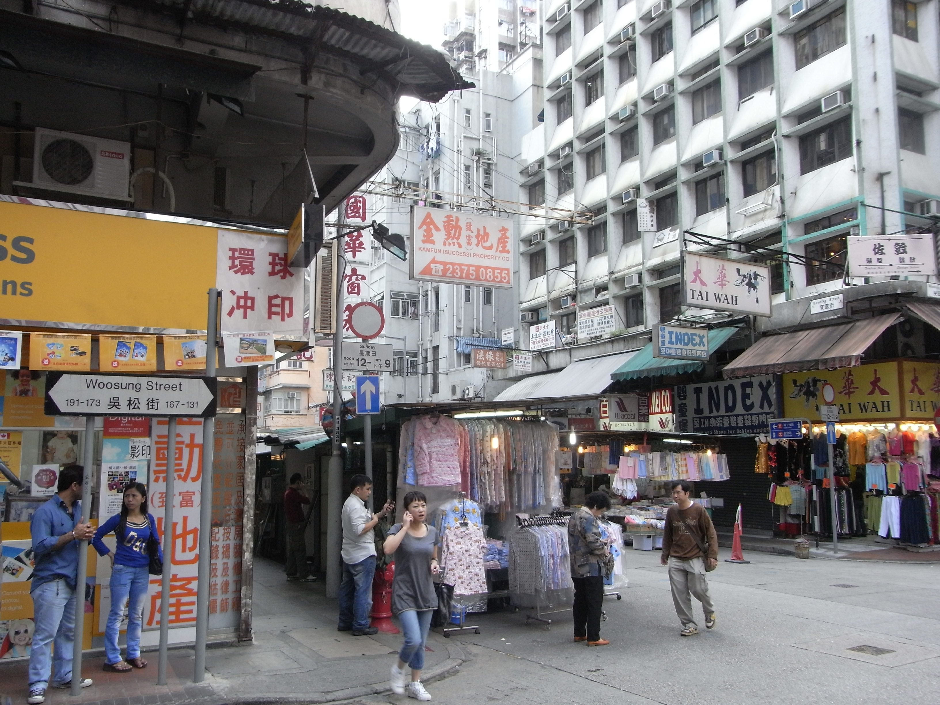 油麻地 吳松街